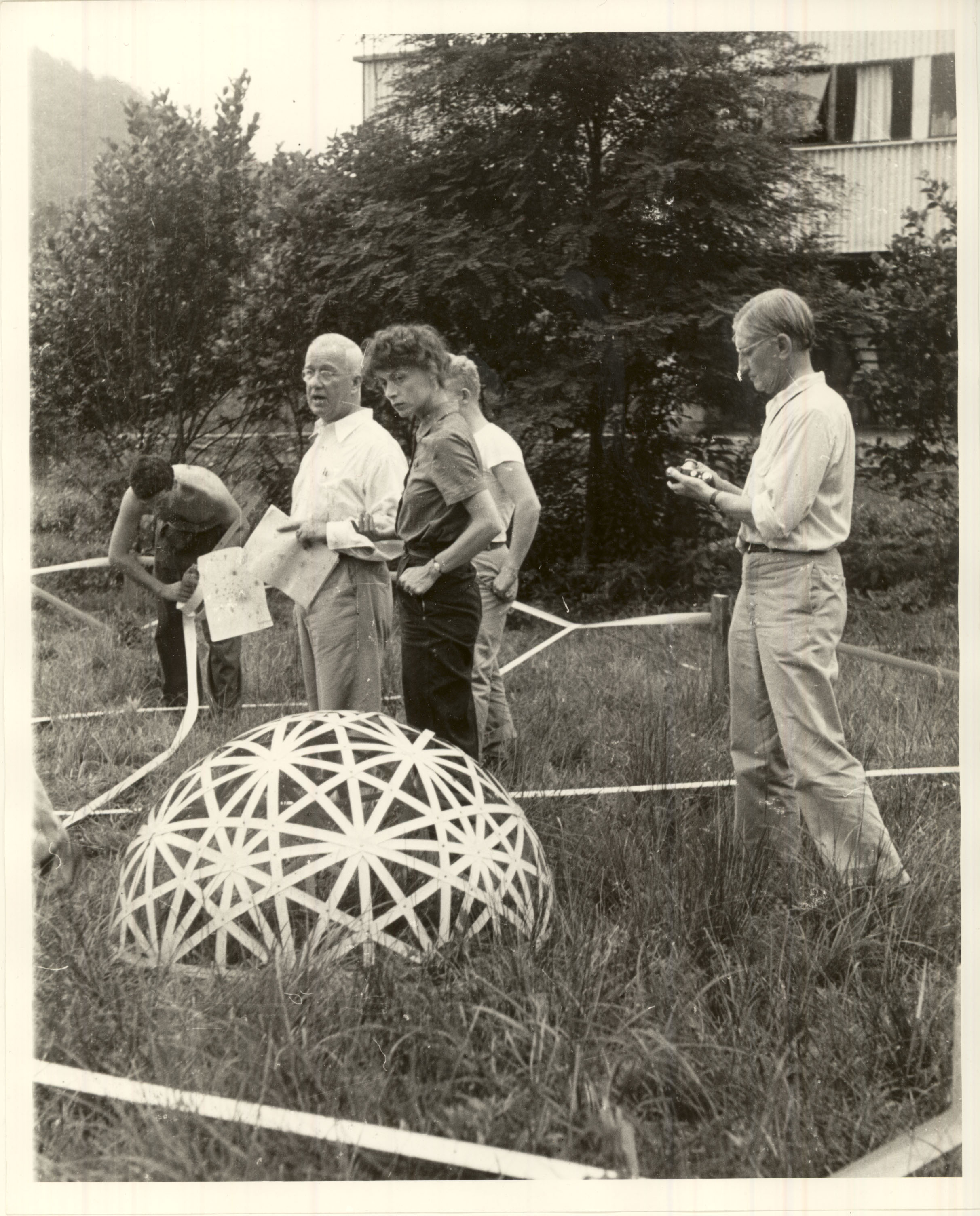 Photo by Beaumont Newhall, Summer 1948. Courtesy Beaumont & Nancy Newhall Estate. Scheinbaum & Russek Ltd., Santa Fe, N.M. © Beaumont & Nancy Newhall Estate. Reproduced from the Black Mountain College Research Project Papers, Visual Materials, North Carolina State Archives, Western Regional Archives, Asheville, NC (formerly Raleigh, NC)